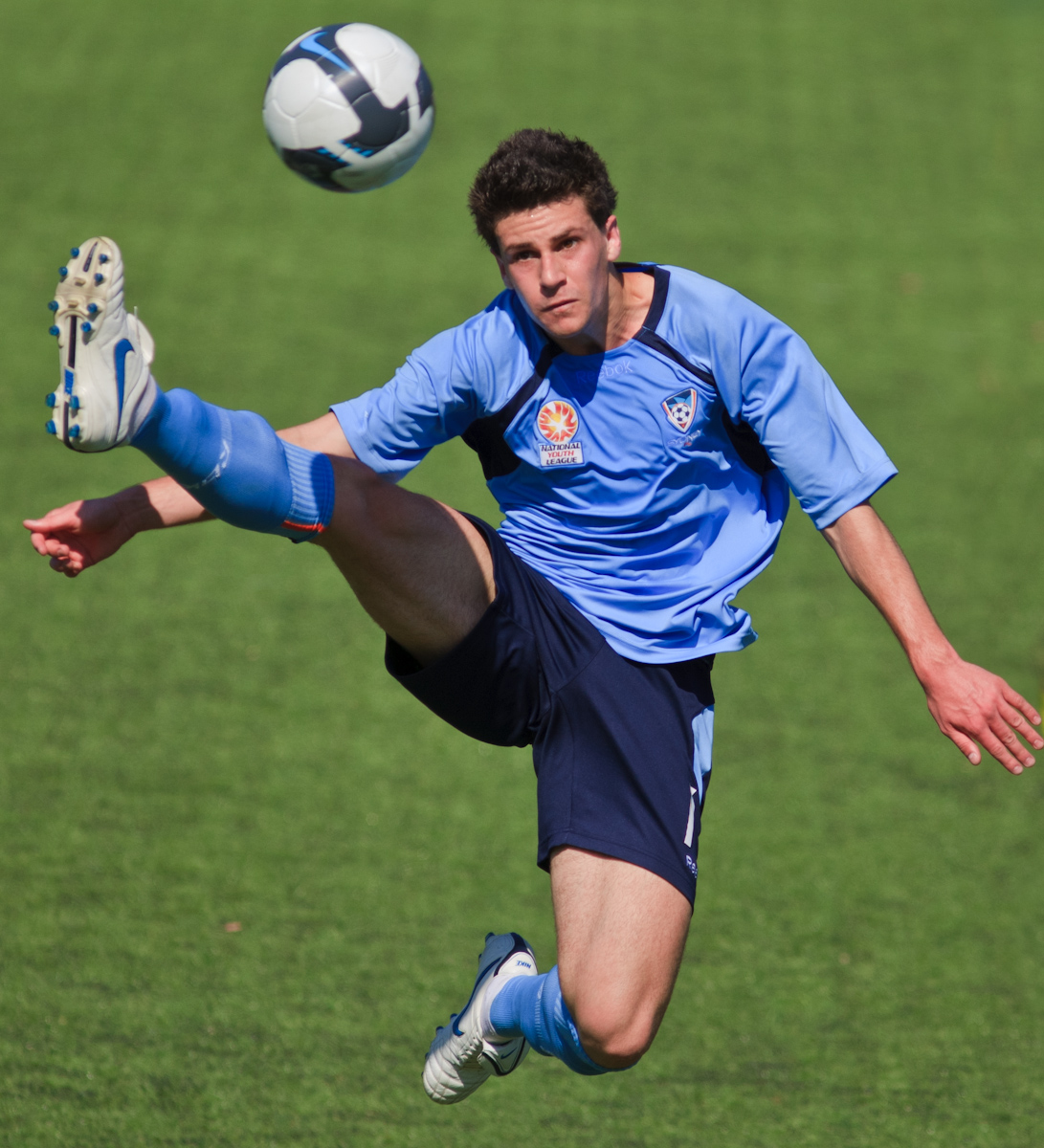 Joel Chianese playing for Sydney FC in the National Youth league 2008/09 season.